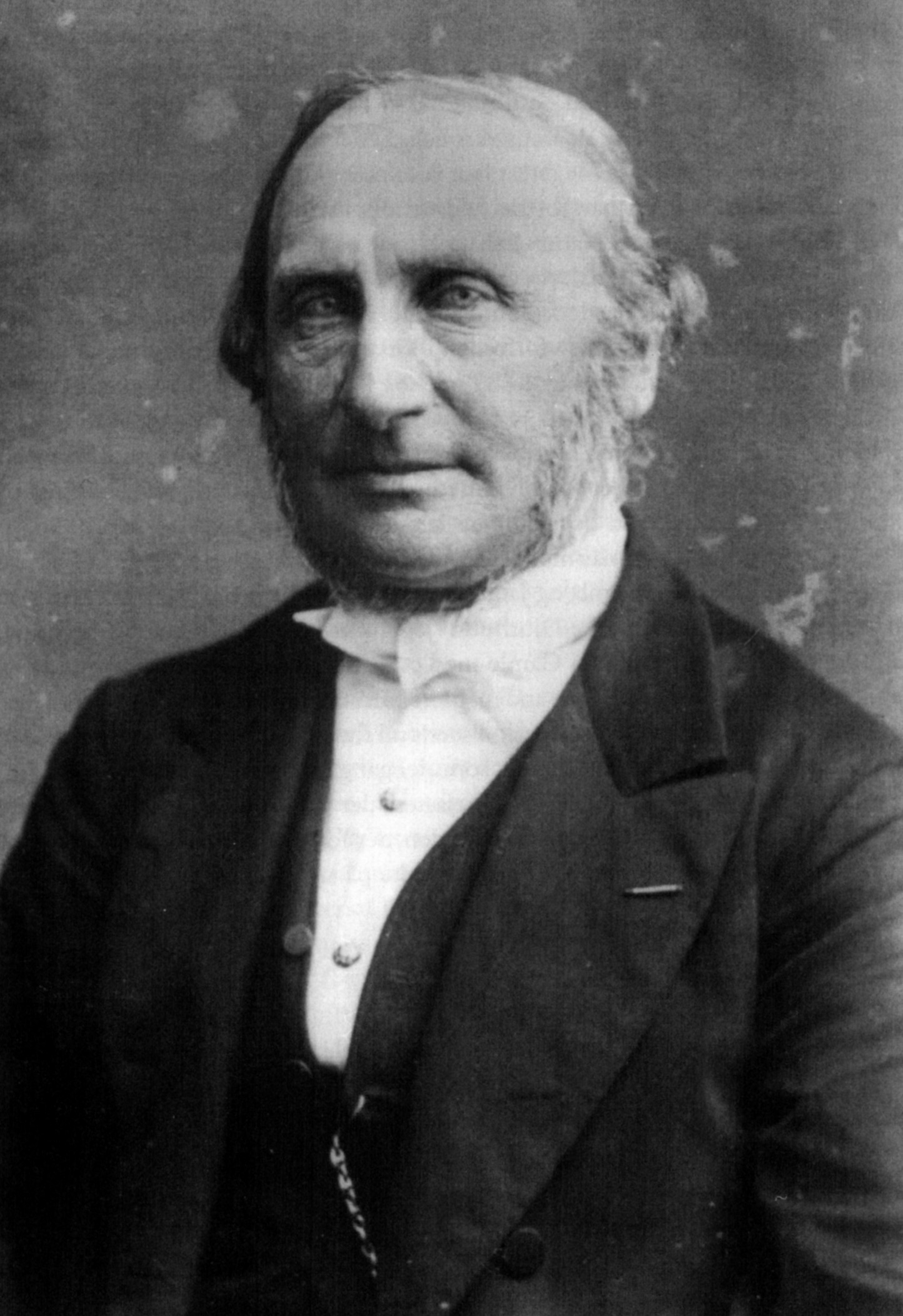 V. U. Hammershaimb (1819-1909), Faroese provost and linguist